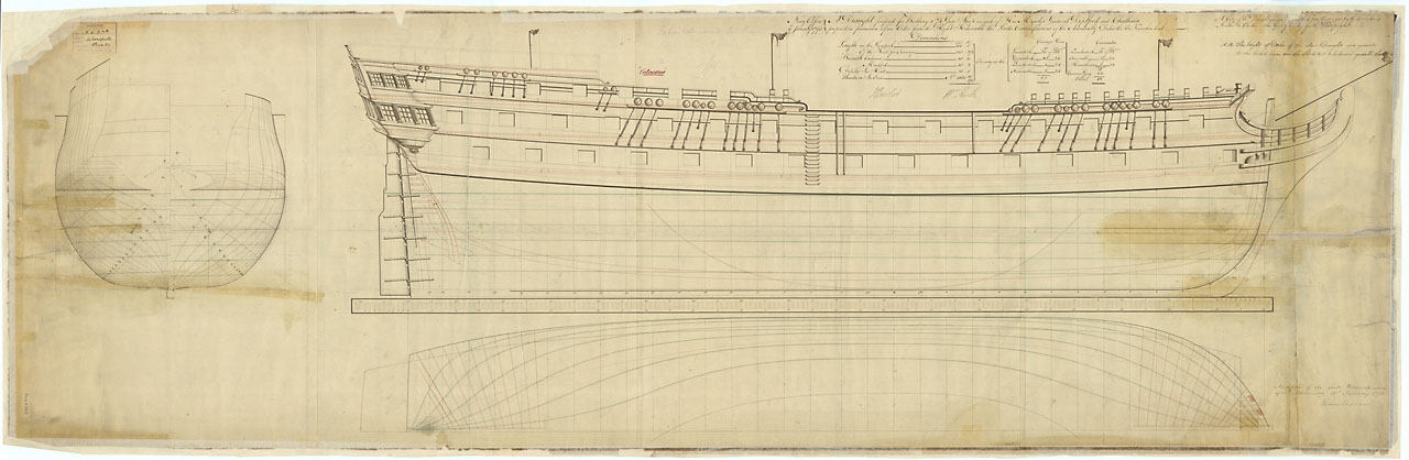 Plan showing the body plan, sheer lines, longitudinal half-breadth for HM Ships Warspite (1807) and Colossus (1803), both 74-gun Third Rate, two-deckers.